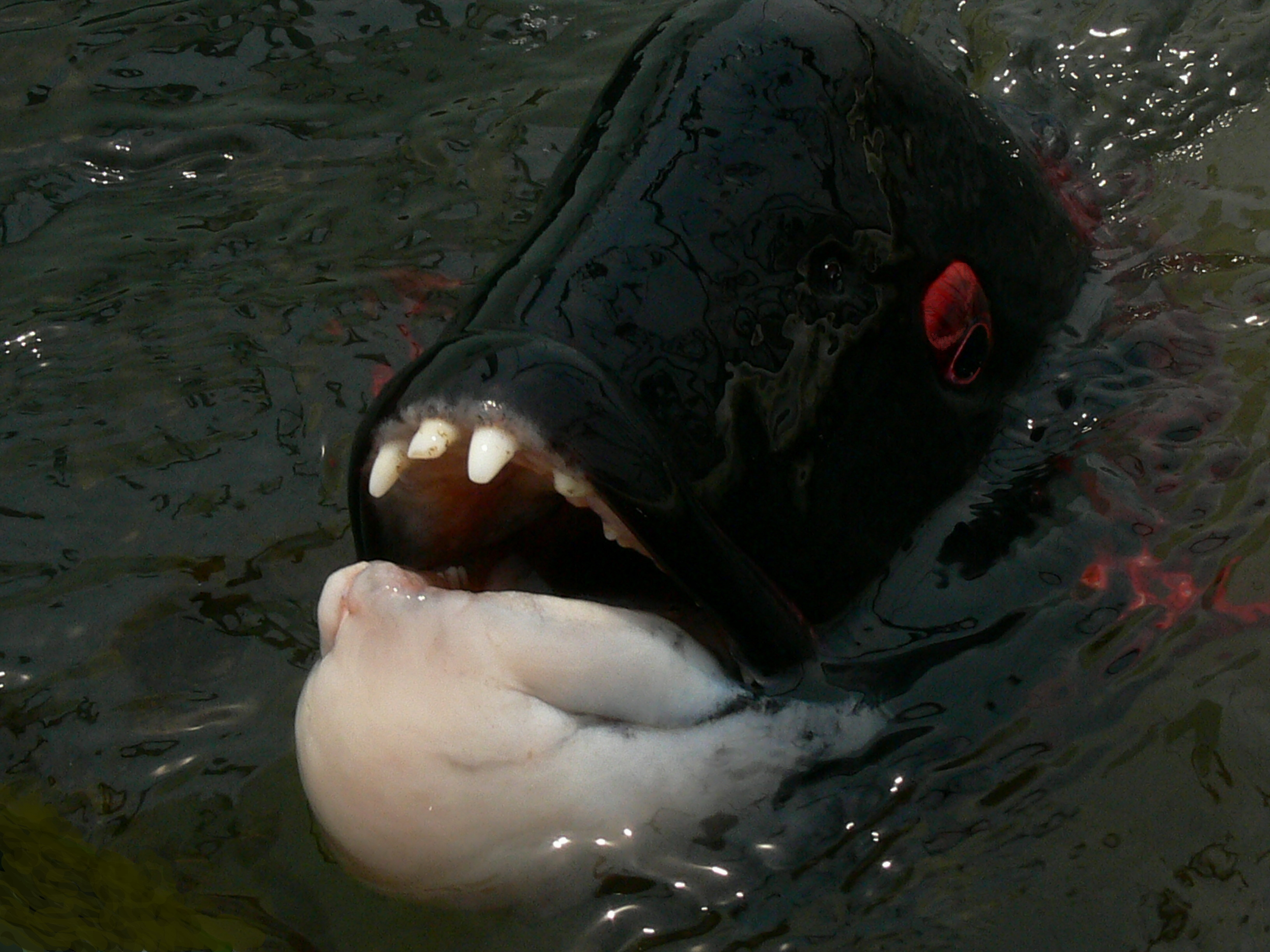 Coming to the surface of the water and showing us his big teeth, this sheepshead fish was stark black, white and red.